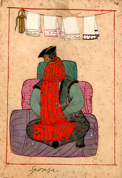 Bride — "Sponsa" (Pictures from the Ralamb Costume Book, 1657)